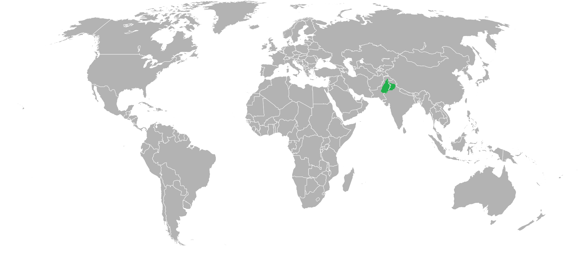 Map of the Punjab Region